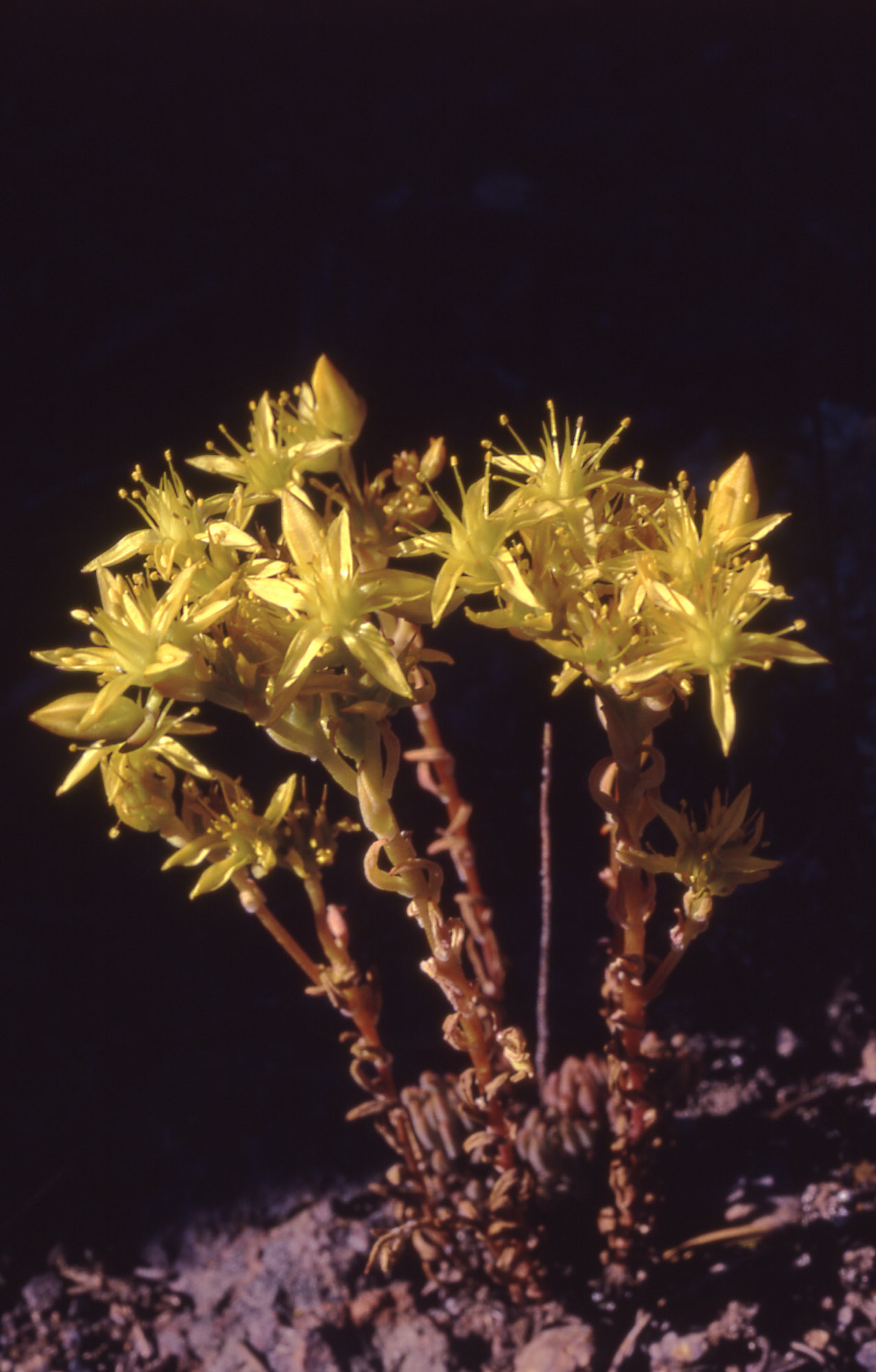 Lanceleaved stonecrop (Sedum lanceolatum)